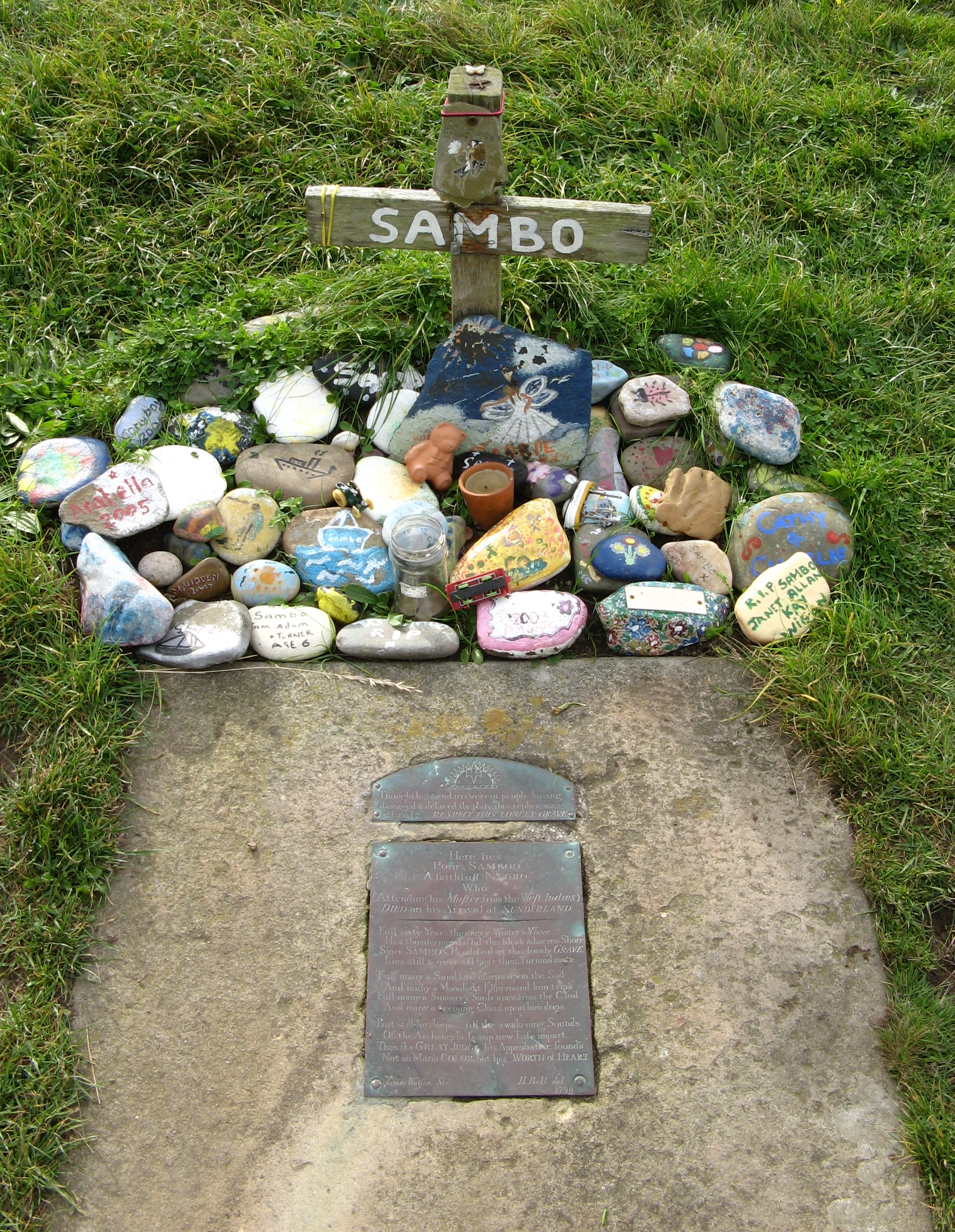 Sambo's Grave, Sunderland Point, Lancashire, England.